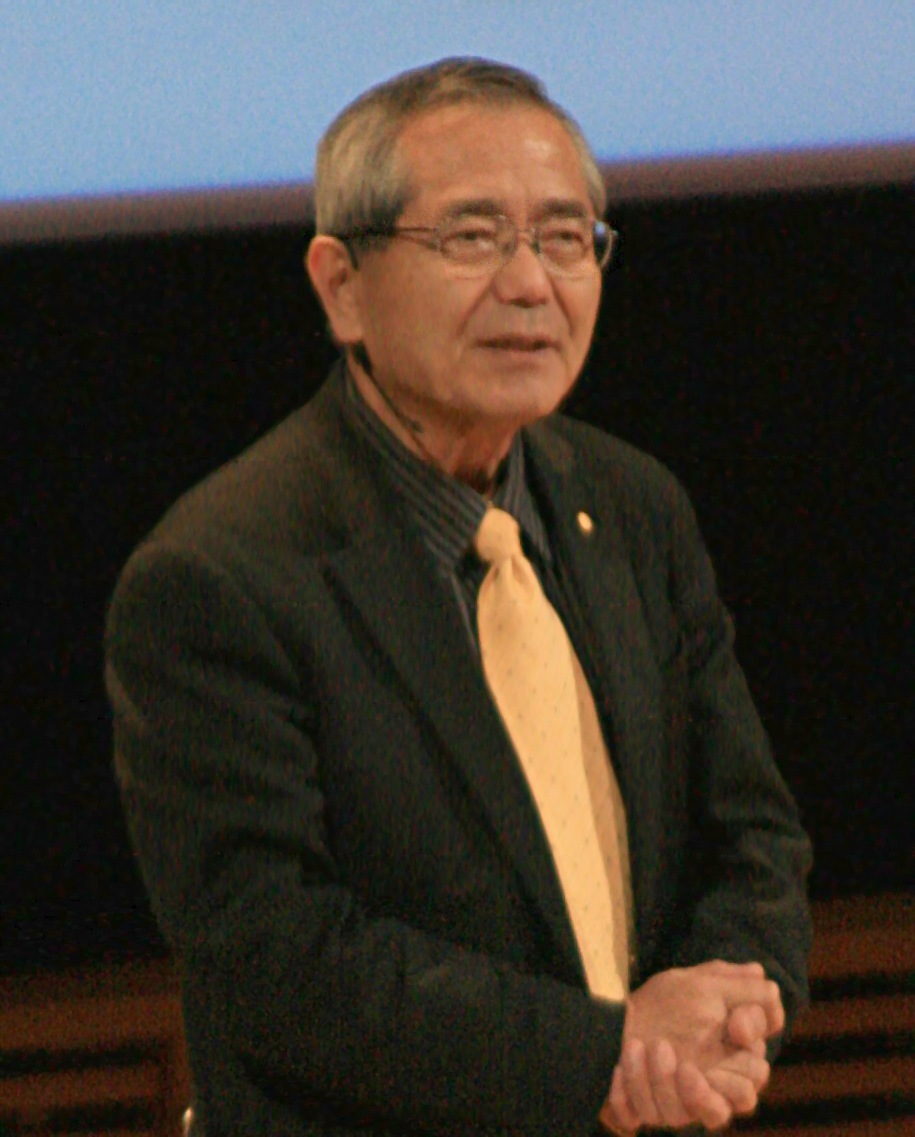 Ei-ichi Negishi, awarded the Nobel Prize in Chemistry for 2010, at his Nobel lecture in Stockholm University